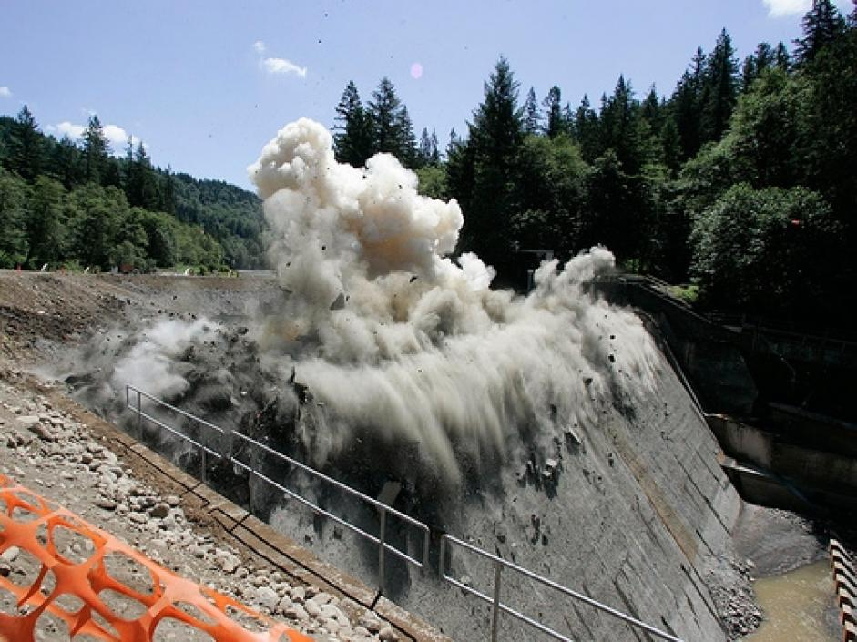 Dam removal: the Marmot Dam on the Sandy River in Oregon was demolished in 2007 using dynamite